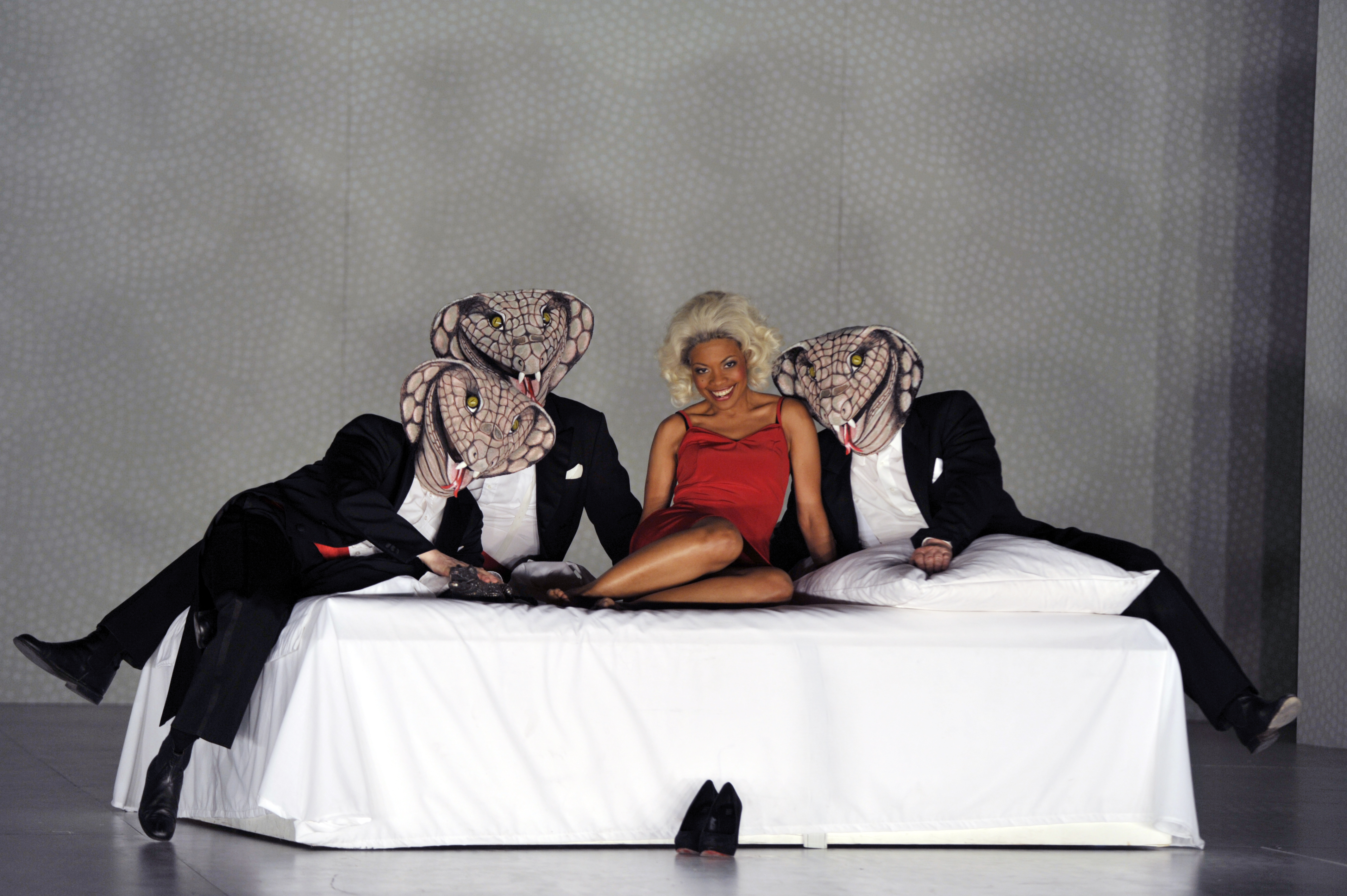 Luanda Siqueira in Georg Philipp Telemann's 1726 opera Orpheus, staged by Opera Fuoco